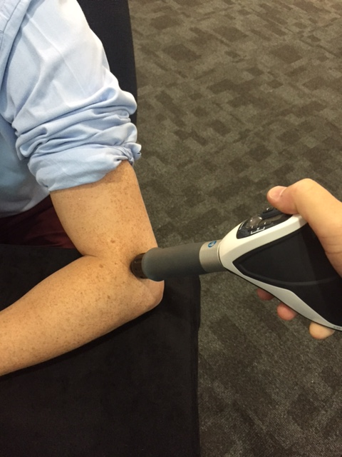 Extracorporeal shockwave therapy being administered